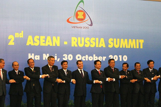 Before the ASEAN-Russia summit.